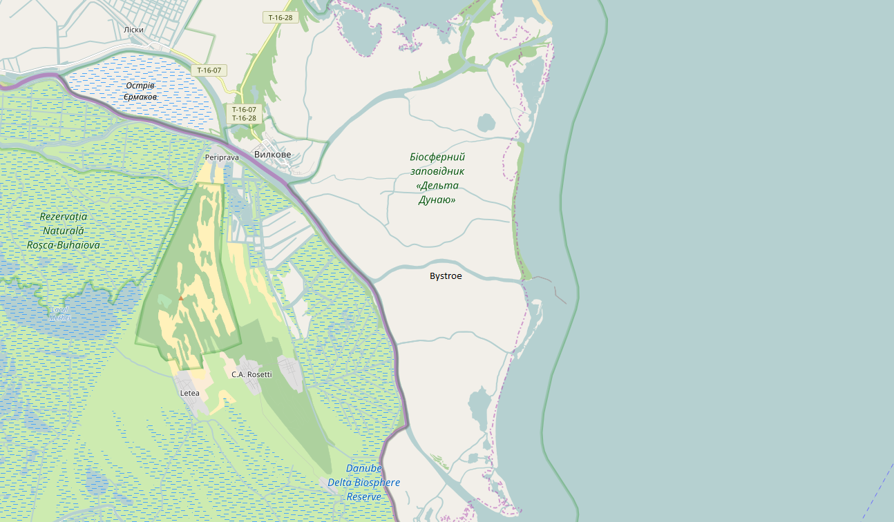 Danube Delta with Bystroe labeled This map may be incomplete, and may contain errors. Don't rely solely on it for navigation.